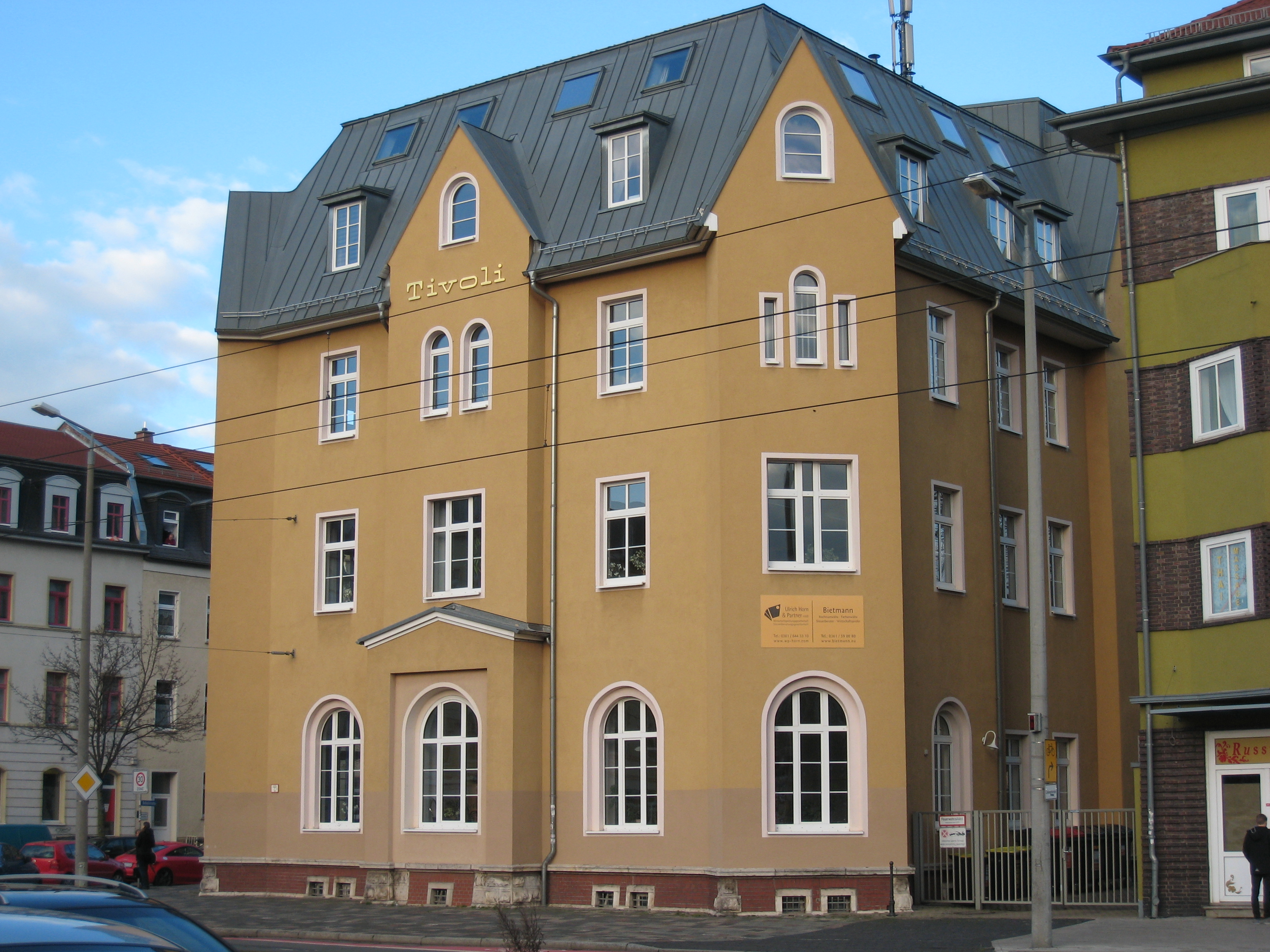 Tivoli Erfurt, Magdeburger Allee 4